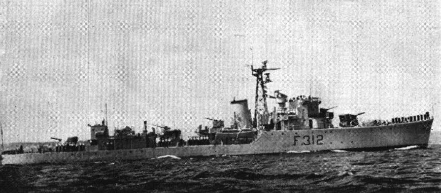 The Royal Norwegian Navy frigate KNM Haugesund (F312), circa 1960. She was originally built as the Hunt-class destroyer HMS Beaufort (L14) and commissioned in the Royal Navy in 1941. She was sold to Norway in 1952 and scrapped in 1965.